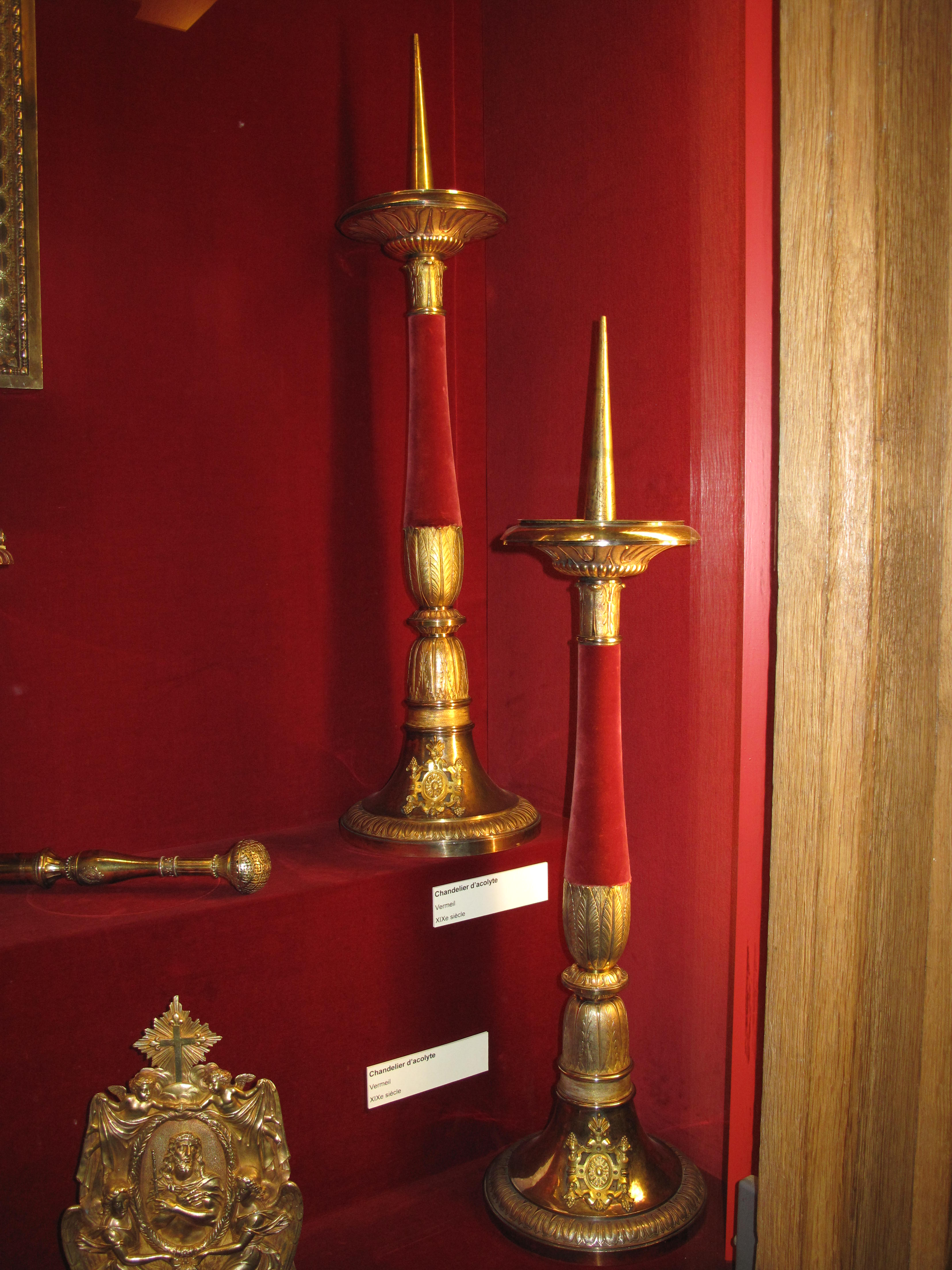 Ceremonial candelsticks preserved in the treasury of the palais du Tau in Reims (Marne, France).